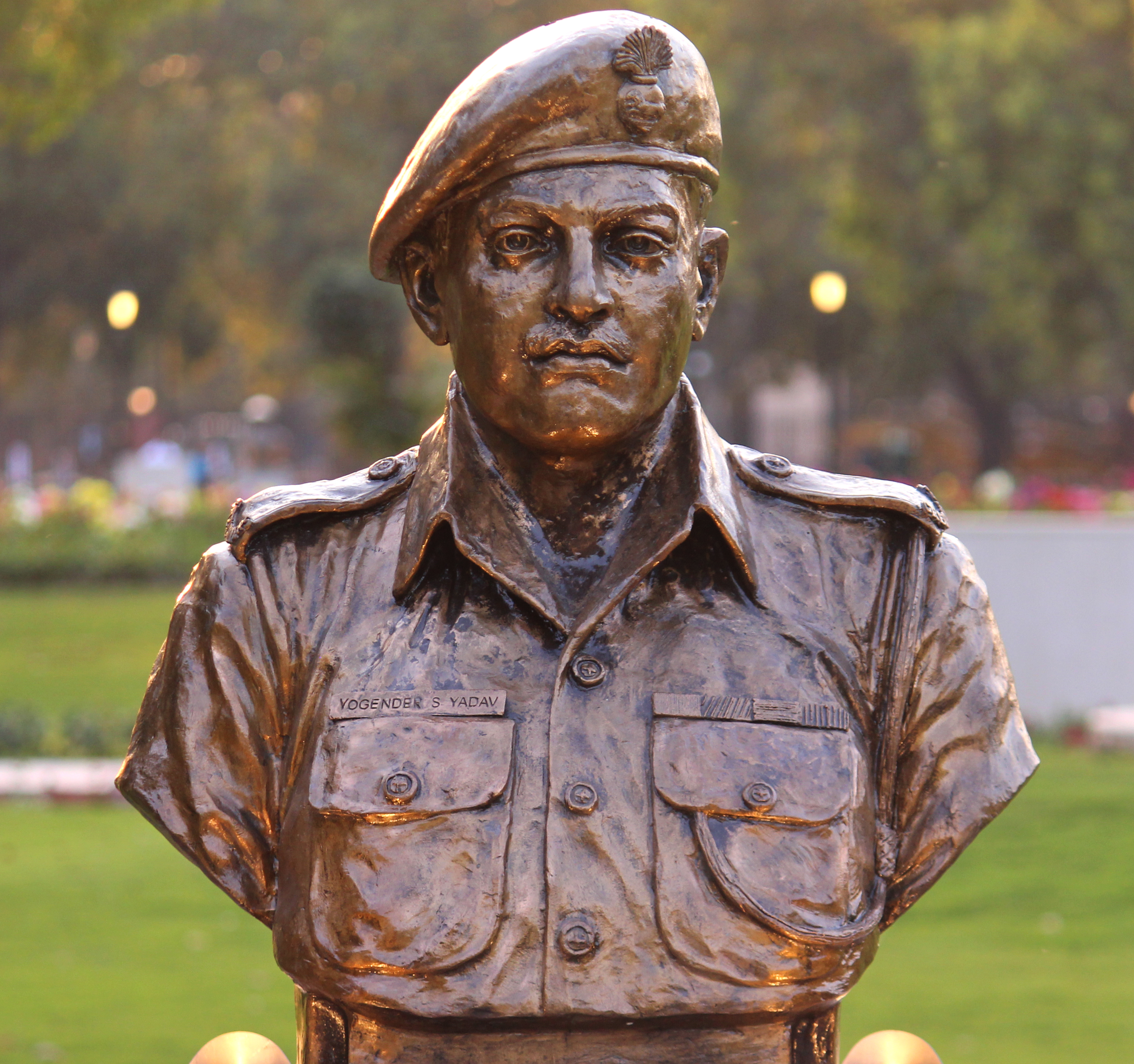 Grenadier Yoginder Singh Yadav's statue at Param Yodha Sthal (section for Param Vir Chakra recipients), National War Memorial, New Delhi.